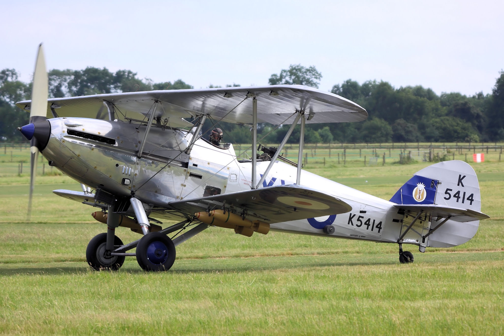 Hawker Hind - Shuttleworth Airshow